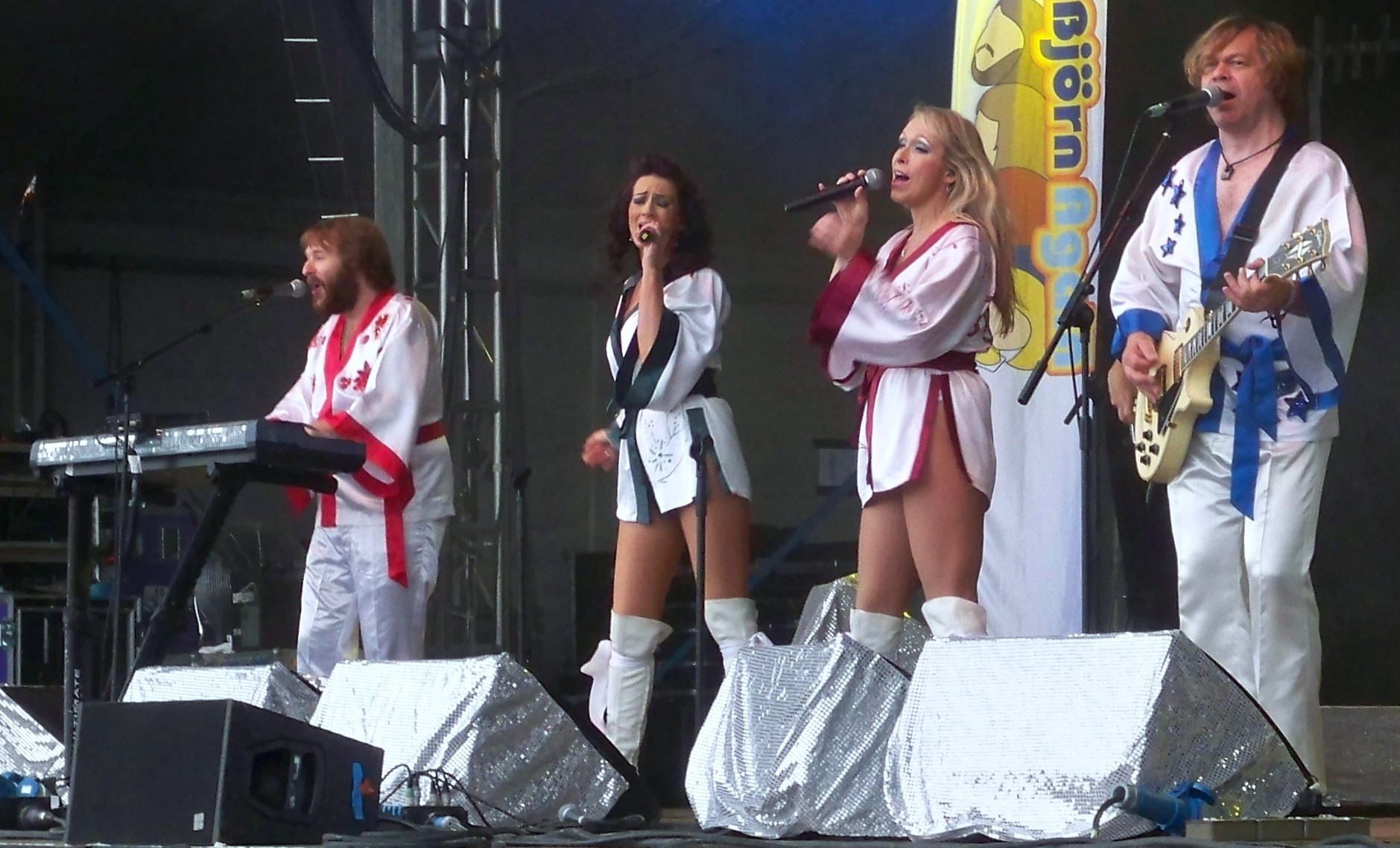 Bjorn Again entertaining the crowd at Guilfest 2012.